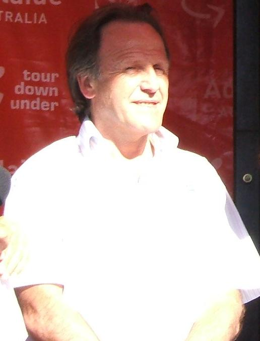 Named cyclist at the en:2009 Tour Down Under team presentation